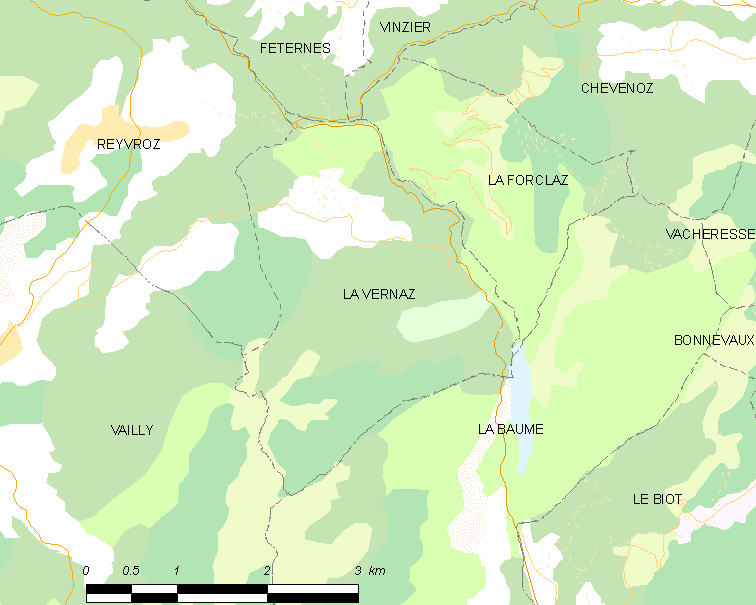 Map of French municipality La Vernaz